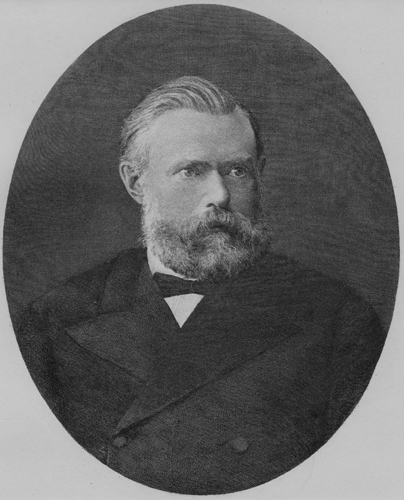 photo of Swedish-Russian engineer and inventor Ludvig Nobel (1831-1888)